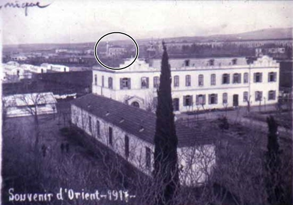 House of the Vicentian Sisters in 1917